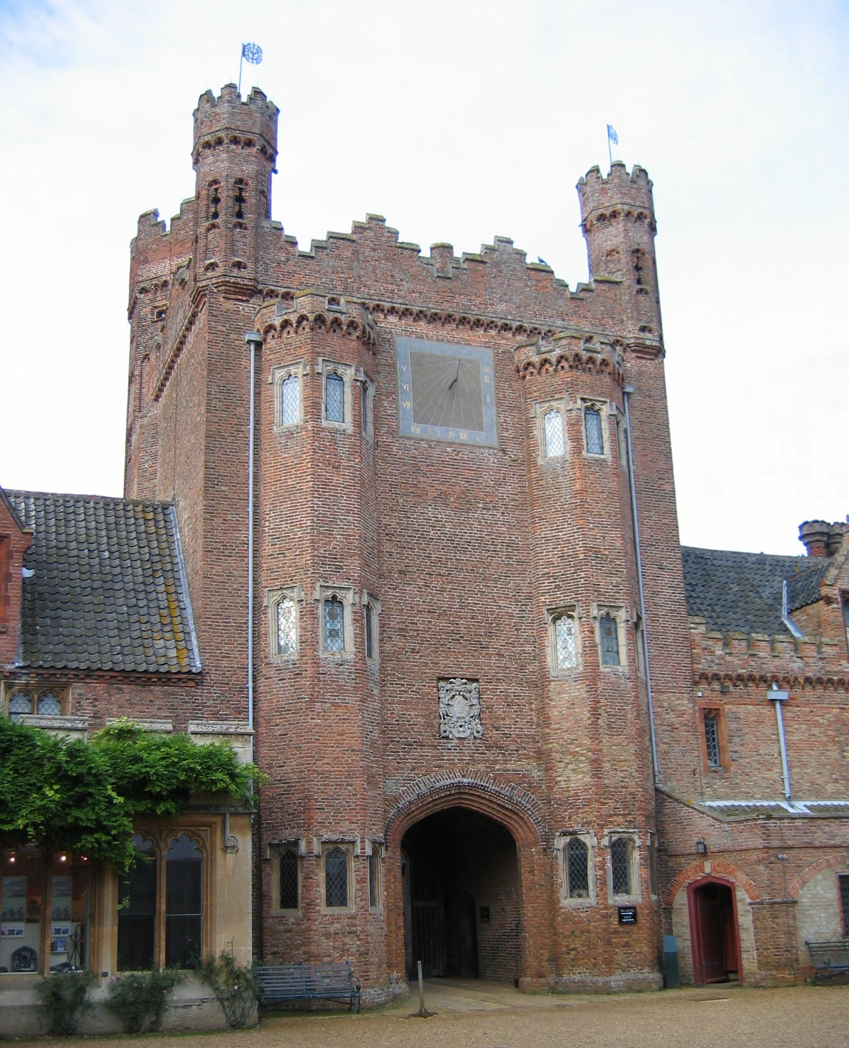 Oxburgh Hall, Norfolk, England. Gatehouse seen from courtyard. Photo taken by User:Heron on 23rd October 2005, about 2pm.